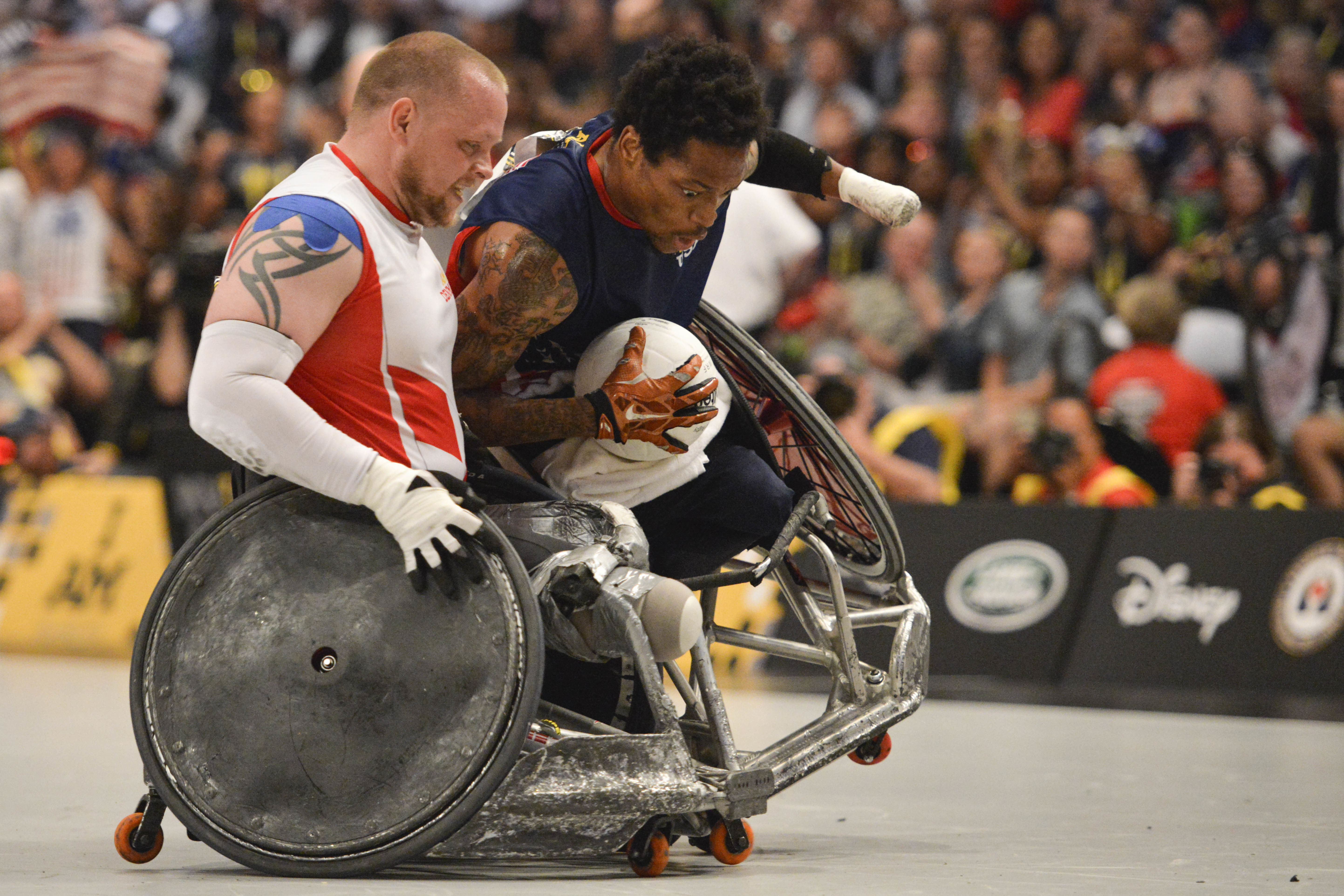 160511-F-WU507-105: After taking a heavy hit, Team US’s rugby captain, Marine veteran Cpl. Anthony McDaniel’s wheel chair flips and rolls twice, before he recovers and immediately begins a defensive block attempt, during the US versus Denmark wheel chair basketball gold metal match at the 2016 Invictus Games, at the ESPN Wide World of Sports complex at Walt Disney World, Orlando, Fla., May 11, 2016. The US beat Denmark 28-19, and took gold; Denmark took silver and the bronze went to the UK, who beat Australia 47-4. (U.S. Air Force photo by Senior Master Sgt. Kevin Wallace/RELEASED) Unit: 89th Airlift Wing